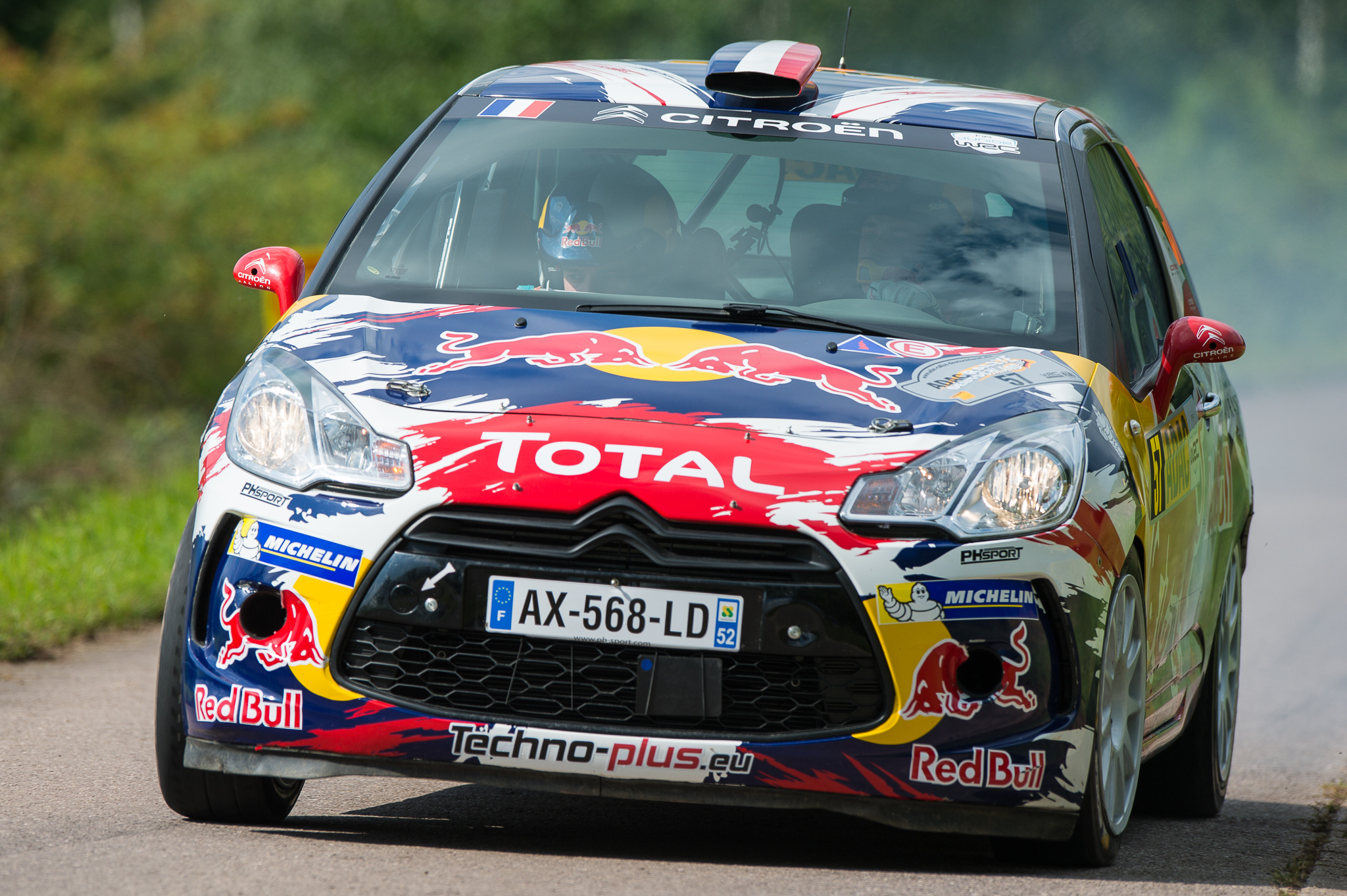 ADAC Rallye Deutschland 2014,Citroen DS3 R3T,FIA,FIA World Rally Championship,Motorsport,Rally,Rallye,Shakedown,Stephane Lefebvre,Thomas Dubois,WRC